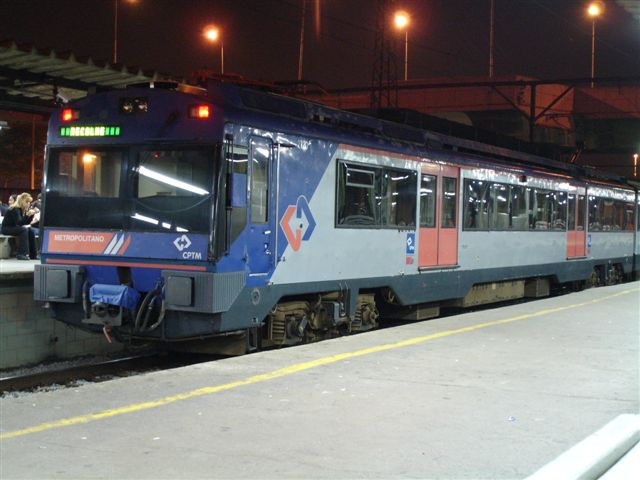 I, the copyright holder of this work, hereby release it into the public domain. This applies worldwide. In case this is not legally possible: I grant anyone the right to use this work for any purpose, without any conditions, unless such conditions are required by law. Date:05/05/2007